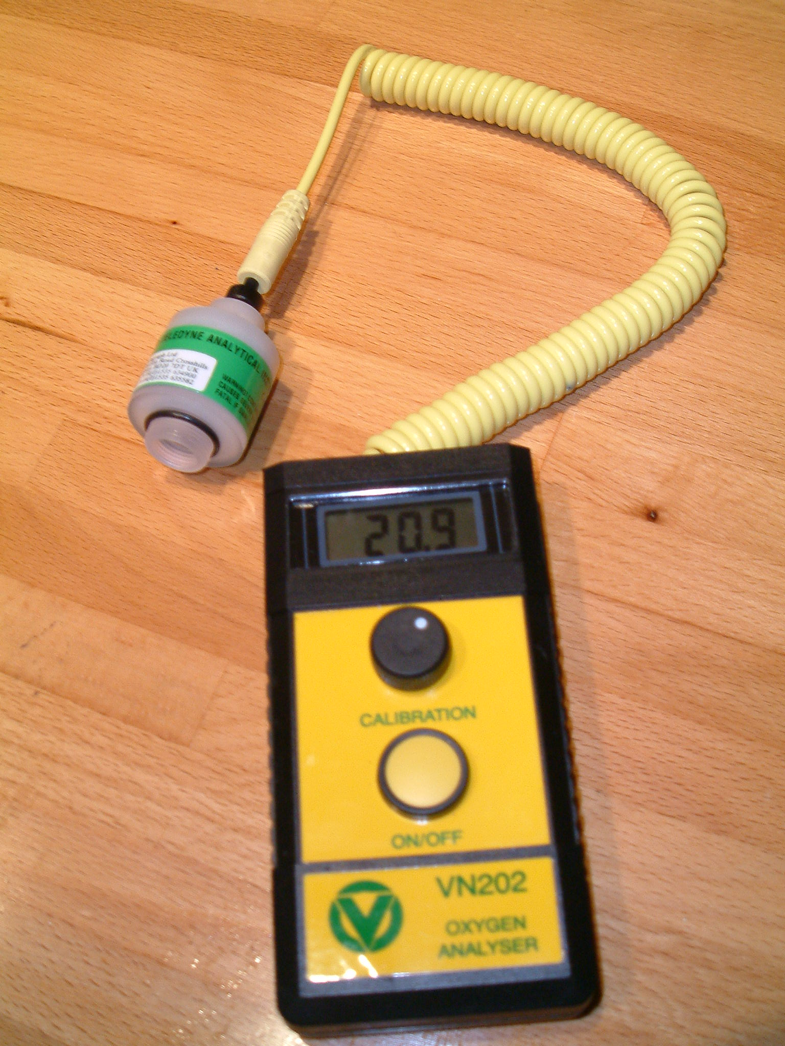 A diving breathing gas oxygen analyser Source I took this photo myself